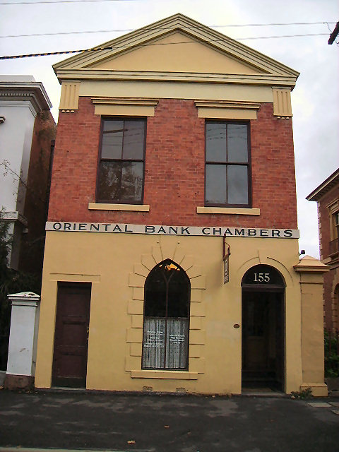 Castlemaine, Oriental Bank. The first branch opened at Forest Creek, Chewton, on 21 April 1862. They opened a new building in 1863 in Market Square, next to the Bank of Victoria.